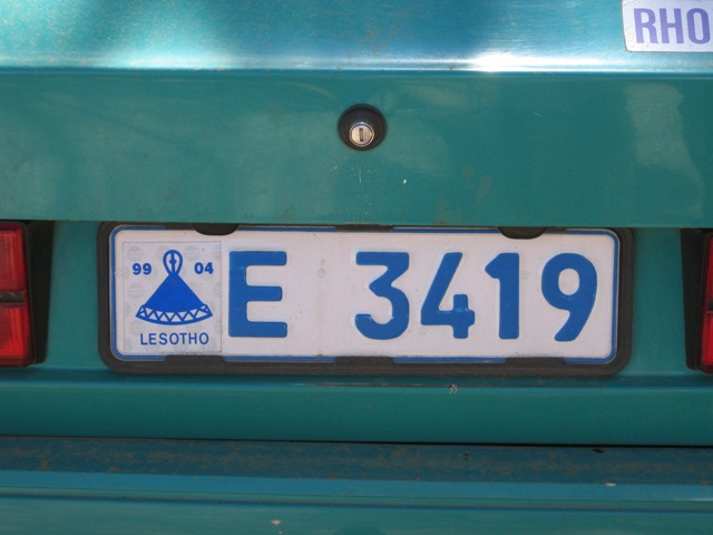 Number plate of a car of Lesotho